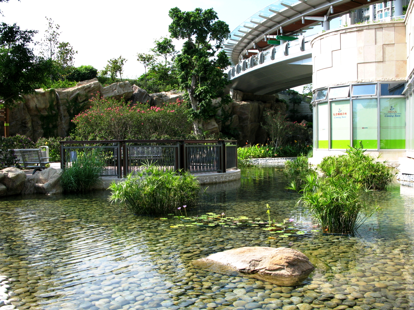 LOHAS Park The Park Eco-Pond